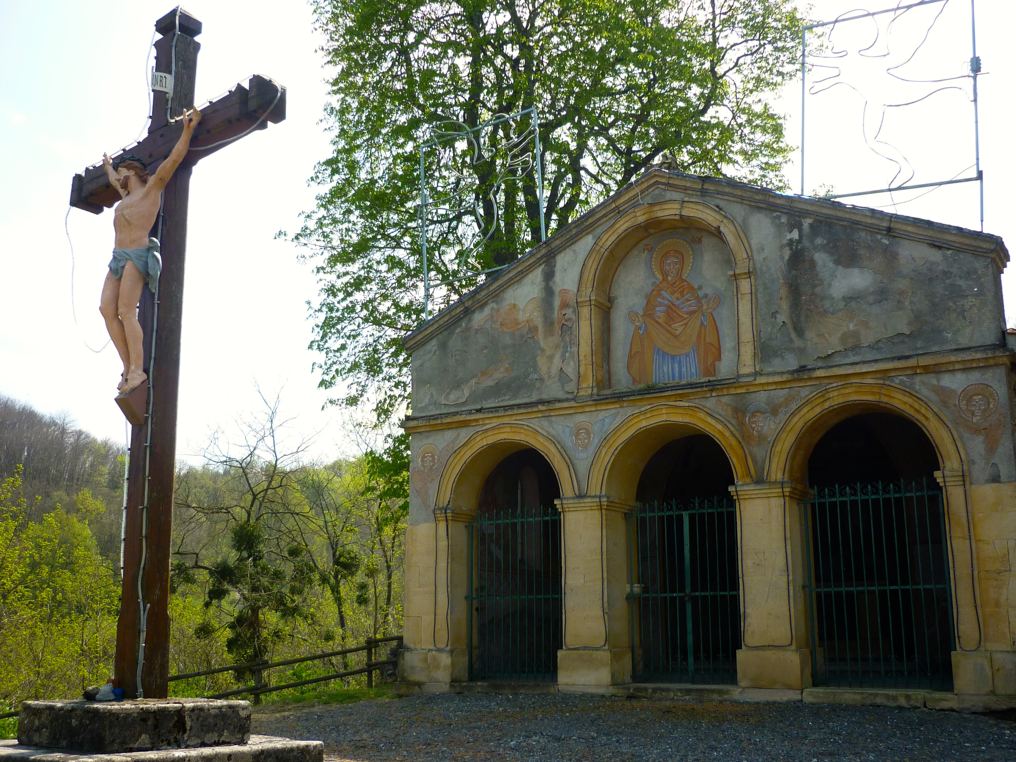 Notre-Dame des sept douleurs Chapel, Miramont de Comminges, France.